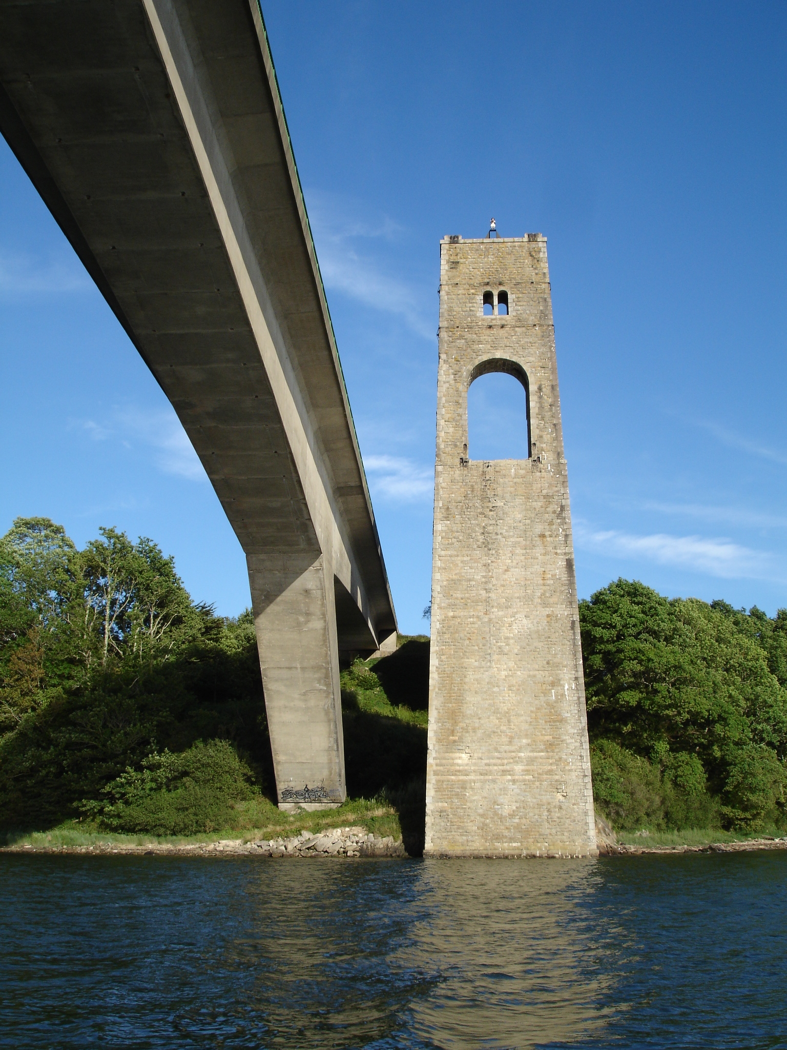 One the the two remaining pier of The old Pont du Bonhomme (the chap bridge), and the new one, on Blavet river, near by Hennebont, in french britanny. The name come from the "bonhomme" on the top of the pier.Unknown une des piles de l'ancien pont du bonhomme, à coté du nouveau pont, sur le blavet. son nom vient du bonhomme qui le surmonte.